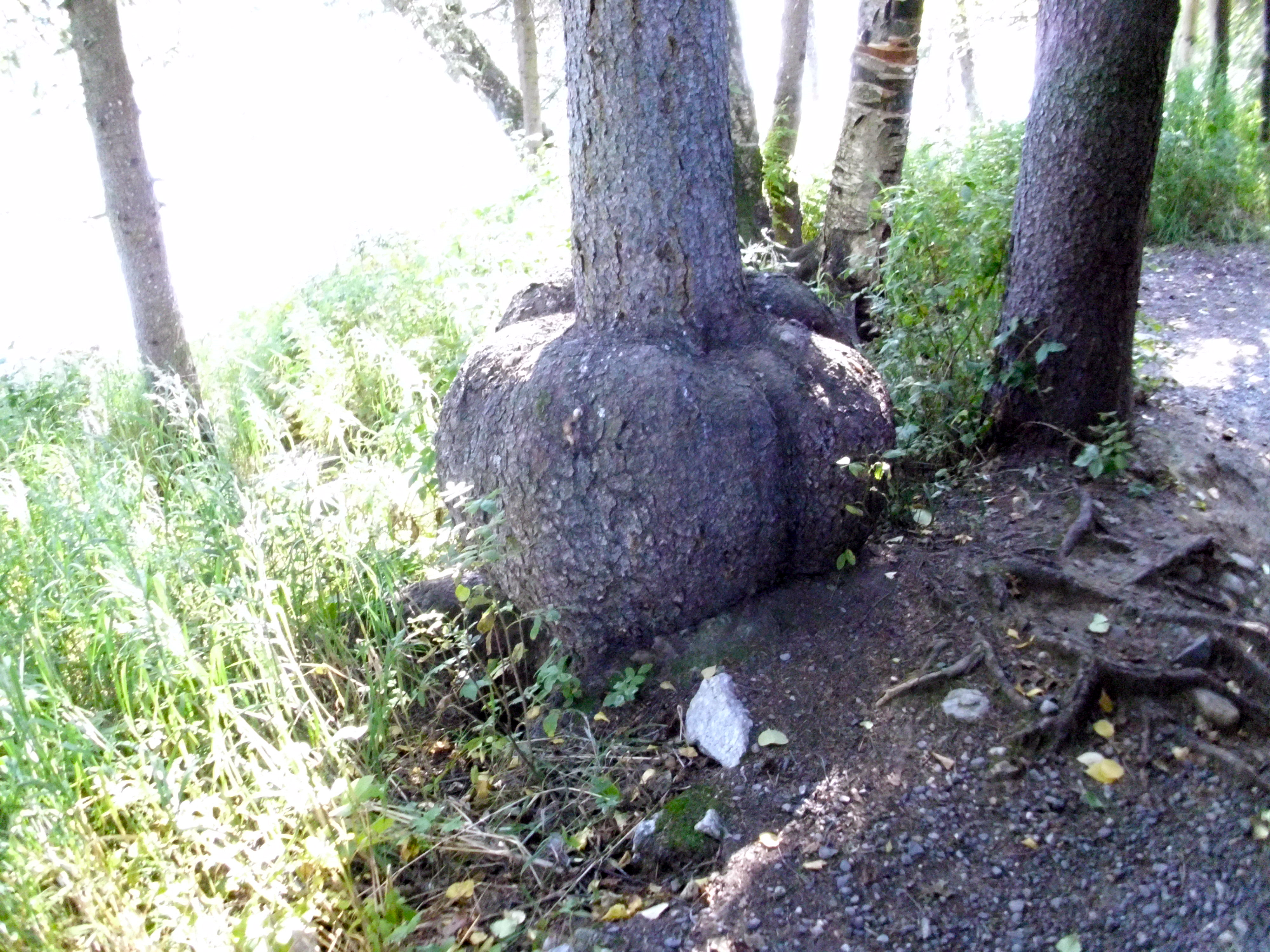 Large burl on a tree trunk, Beyers Lake, Denali State Park, Alaska